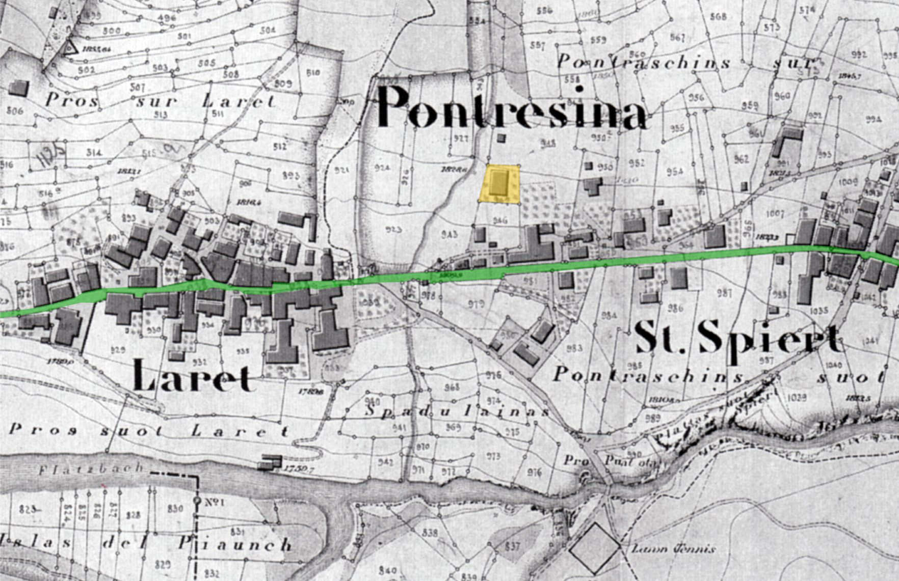 Pontresina, Holy Trinity Church situation plan